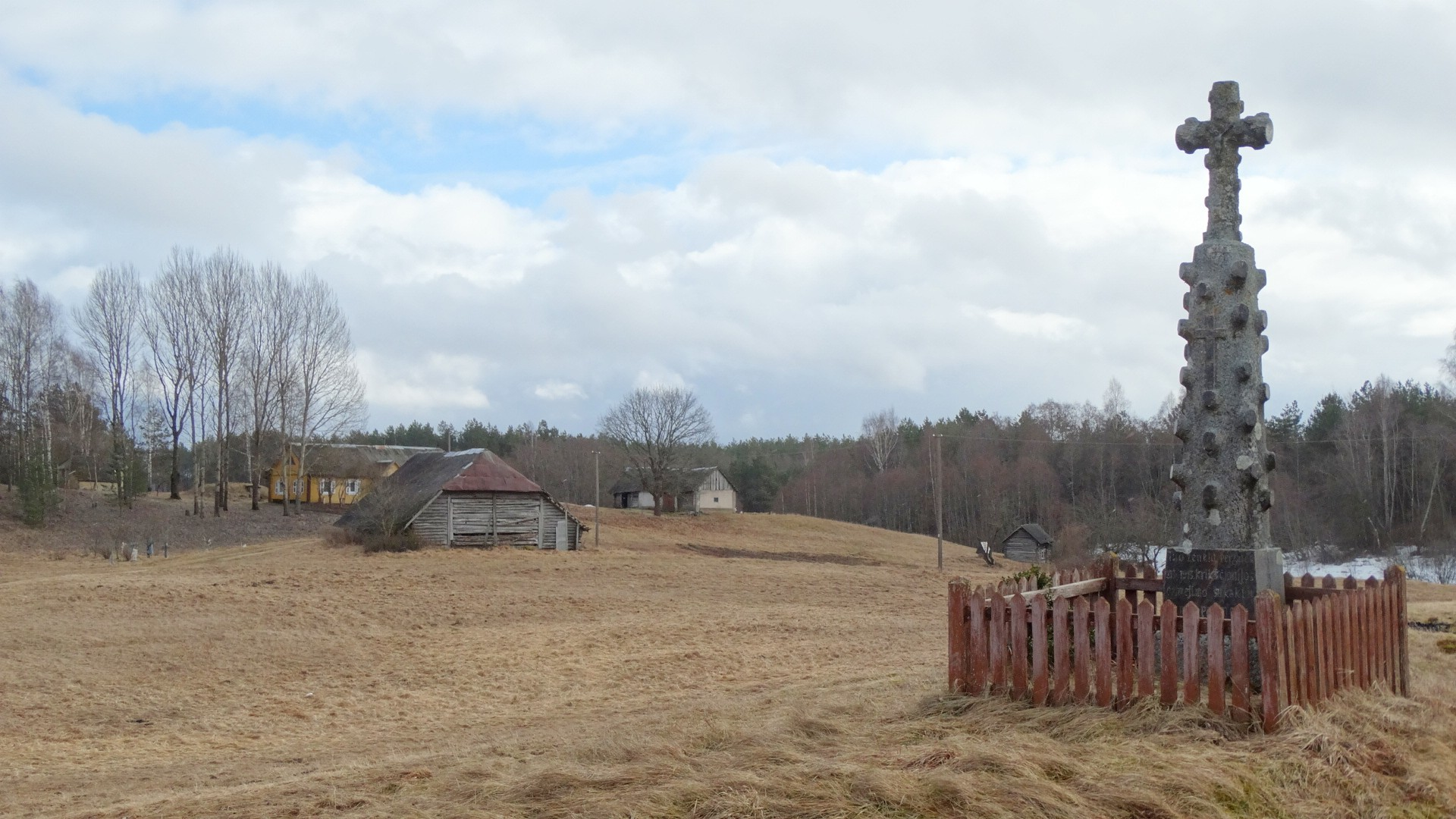 Andreikėnai, Utena district, Lithuania